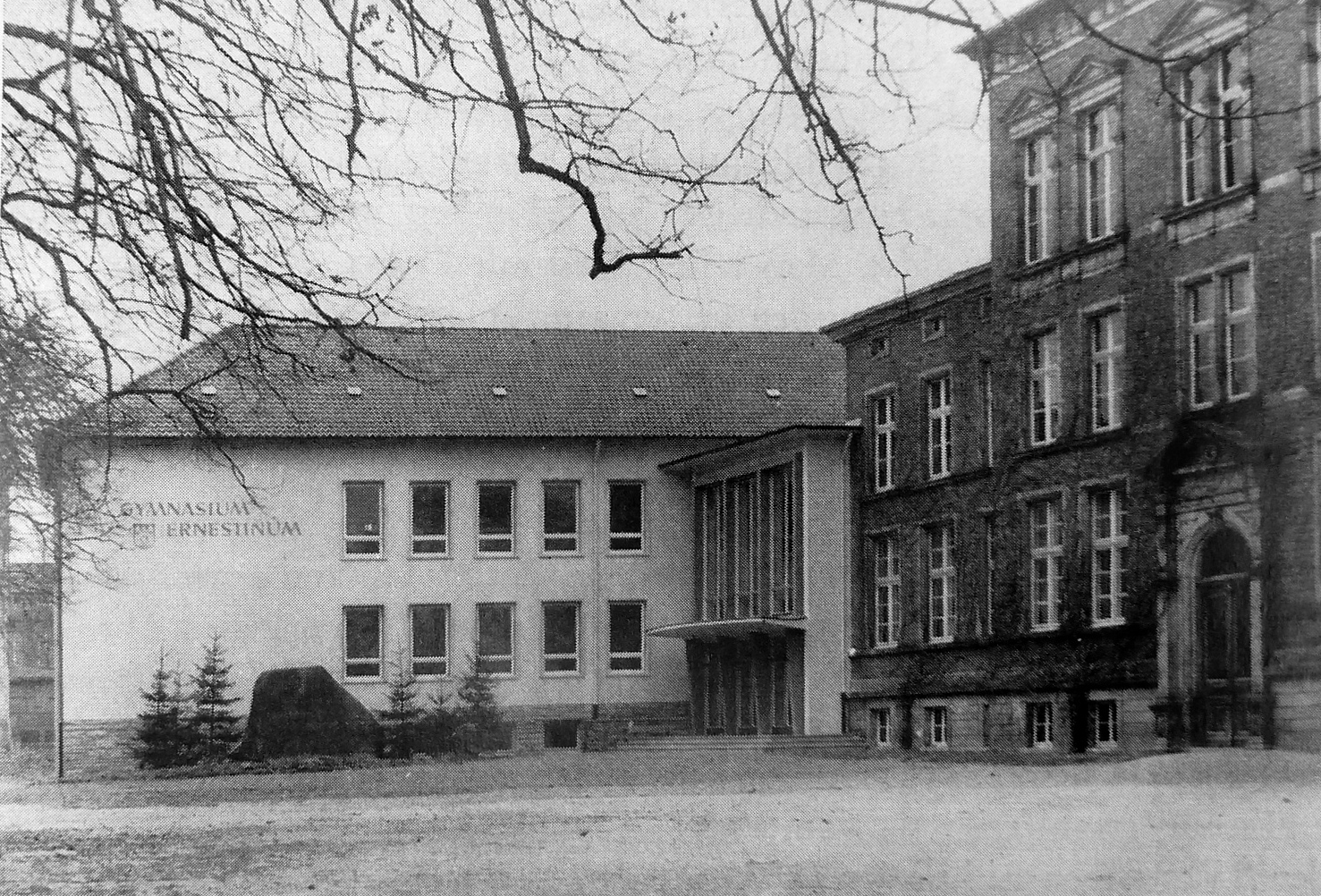 Building of Gymnasium Ernestinum in Rinteln in the 1960s